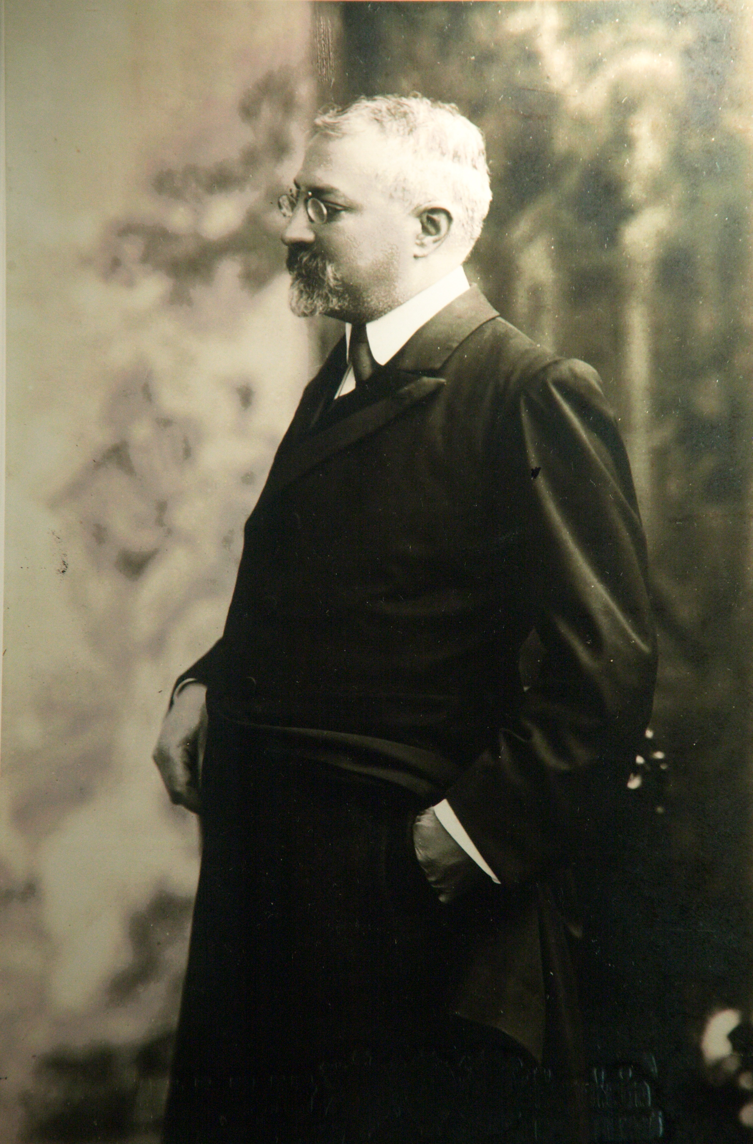 Retrat de Josep Puig i Cadafalch feta pels fotògrafs Napoleon This image (or other media file) is in the public domain because its copyright has expired. This applies to Australia, the European Union and those countries with a copyright term of life of the author plus 70 years. You must also include a United States public domain tag to indicate why this work is in the public domain in the United States. Note that a few countries have copyright terms longer than 70 years: Mexico has 100 years, Colombia has 80 years, and Guatemala and Samoa have 75 years, Russia has 74 years for some authors. This image may not be in the public domain in these countries, which moreover do not implement the rule of the shorter term. Côte d'Ivoire has a general copyright term of 99 years and Honduras has 75 years, but they do implement the rule of the shorter term. This file has been identified as being free of known restrictions under copyright law, including all related and neighboring rights.